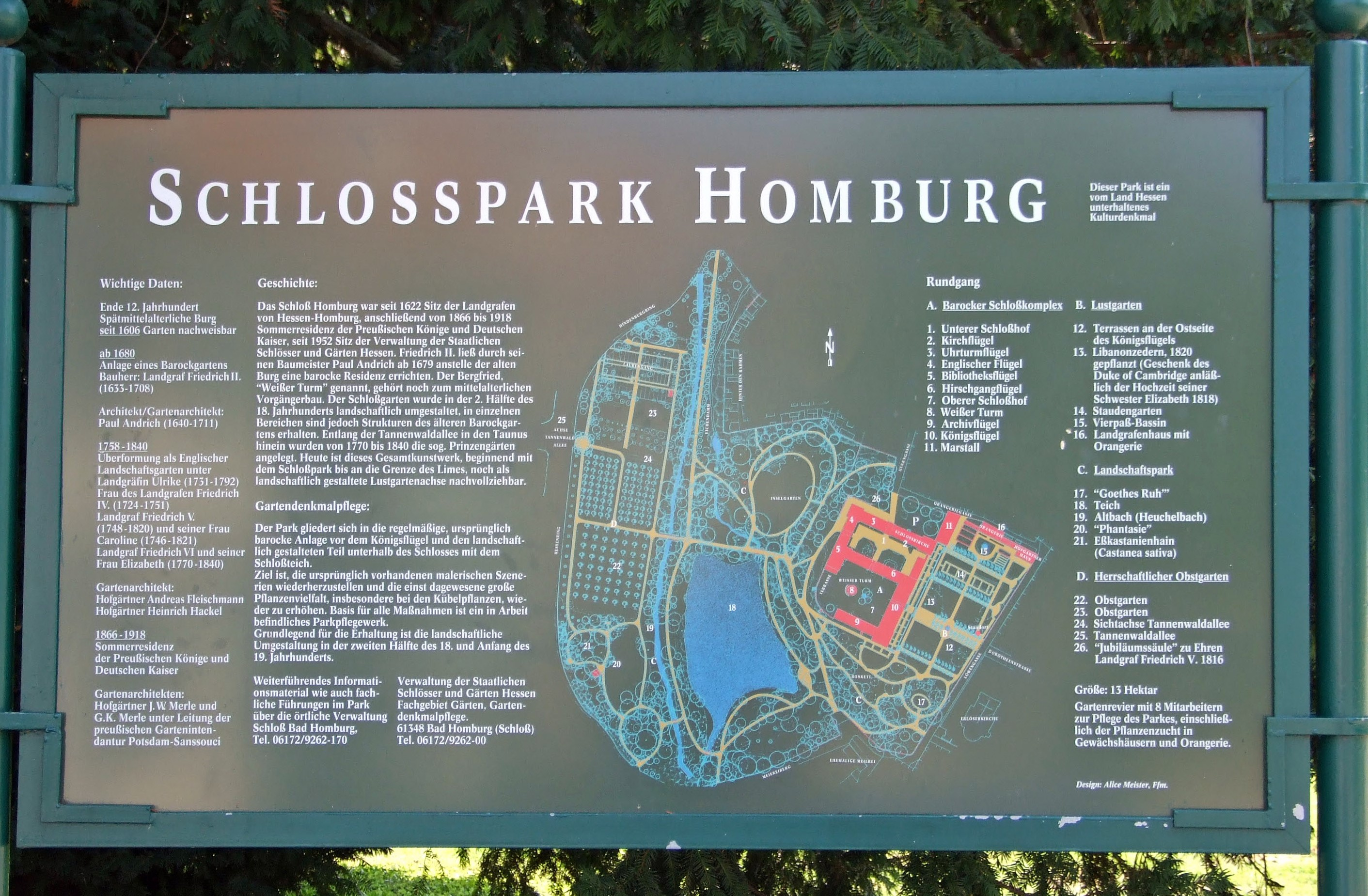 "Schlosspark" map, Bad Homburg; Hesse, Germany